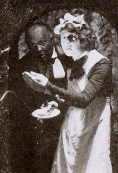 Still from the American drama film The Haunted Bedroom (1919) with Enid Bennett and an unidentified actor, on page 67 of the June 14, 1919 Exhibitors Herald.